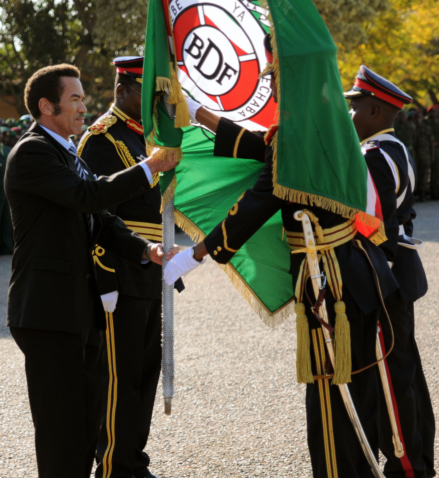 SIR SERETSE KHAMA BARRACKS, The Republic of Botswana – Outgoing Botswana Defense Force Commander Lt. Gen. Tebogo Masire hands the unit colors to the President of The Republic of Botswana and Commander-in-Chief of the Armed Forces Lt. Gen. Tebogo Masire during the BDF Change of Command ceremony on Tuesday. The exchange of colors was accompanied by a pass and review performed by the BDF. (Photo by U.S. Army Staff Sgt. Jaime Witt, 139th MPAD)